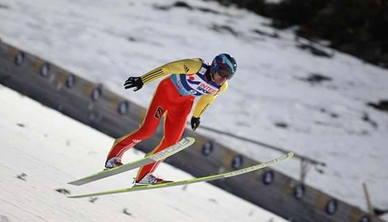 Dimitry Vassiliev during canceled competition of FIS Ski-Flying World Championships 2012 in Vikersund